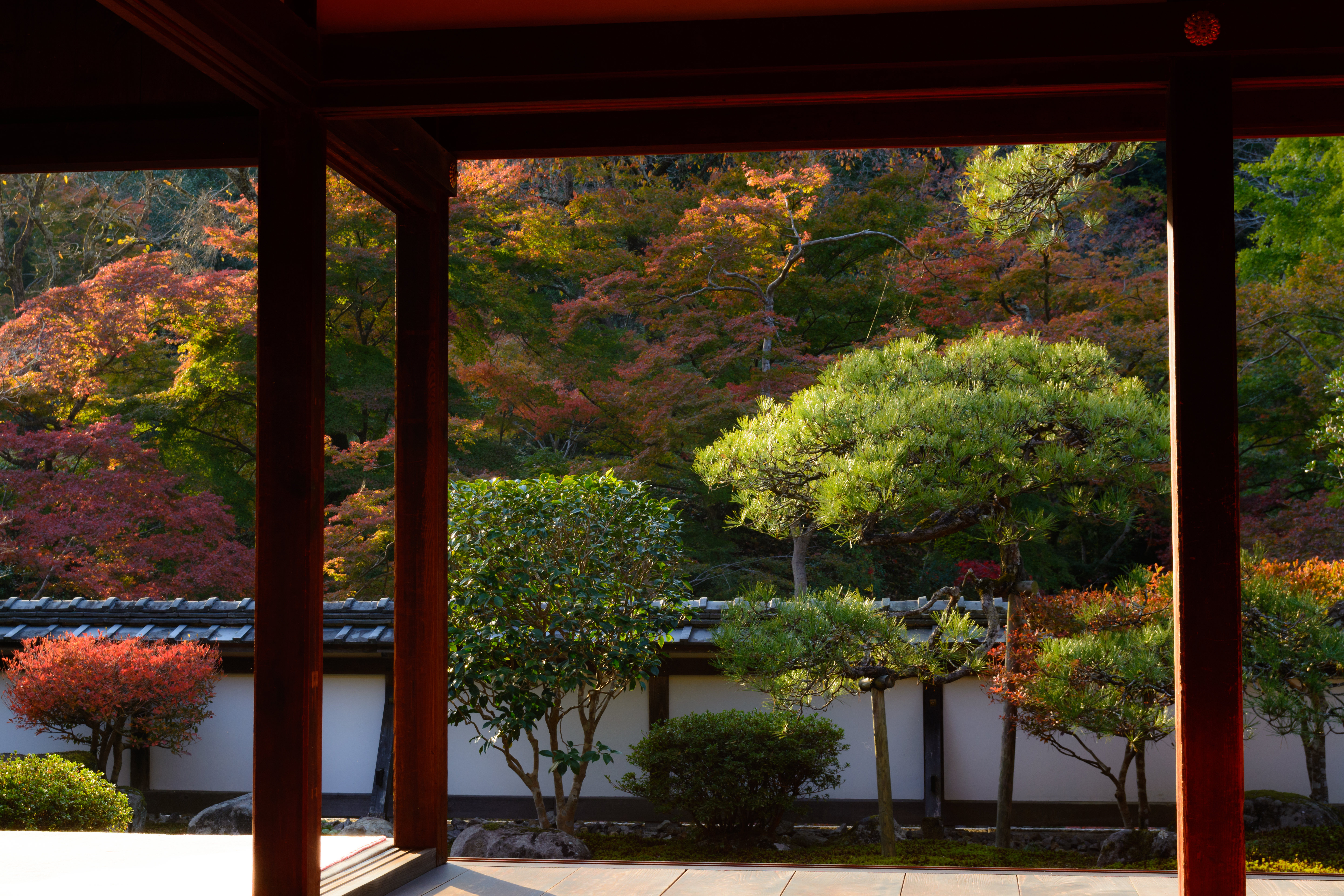 Shoryaku-ji, in Nara, Nara prefecture